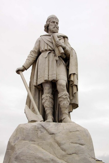 Statue of King Alfred in Wantage, England